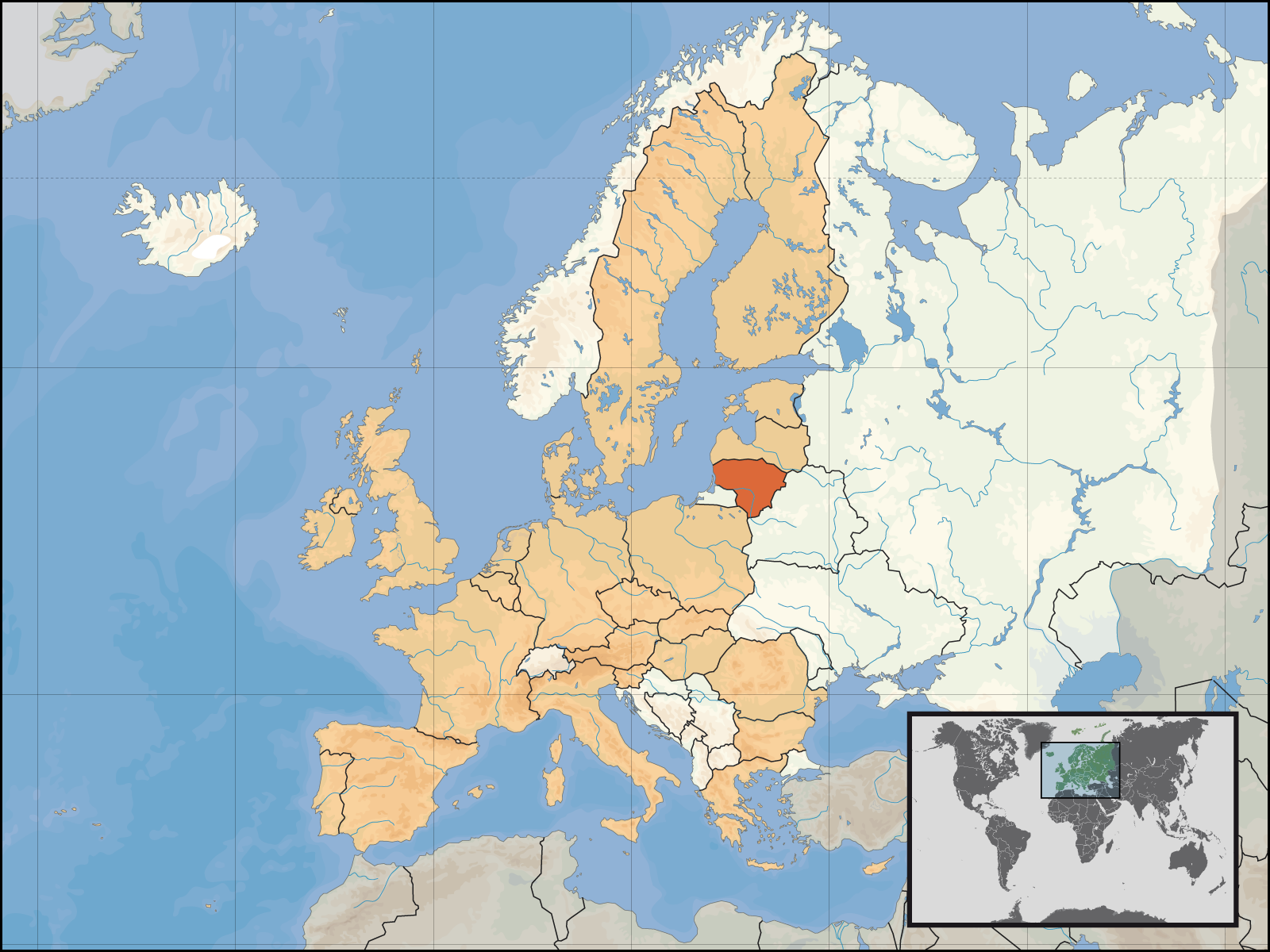 Location of Lithuania within Europe and the European Union on the 1st of January 2007.